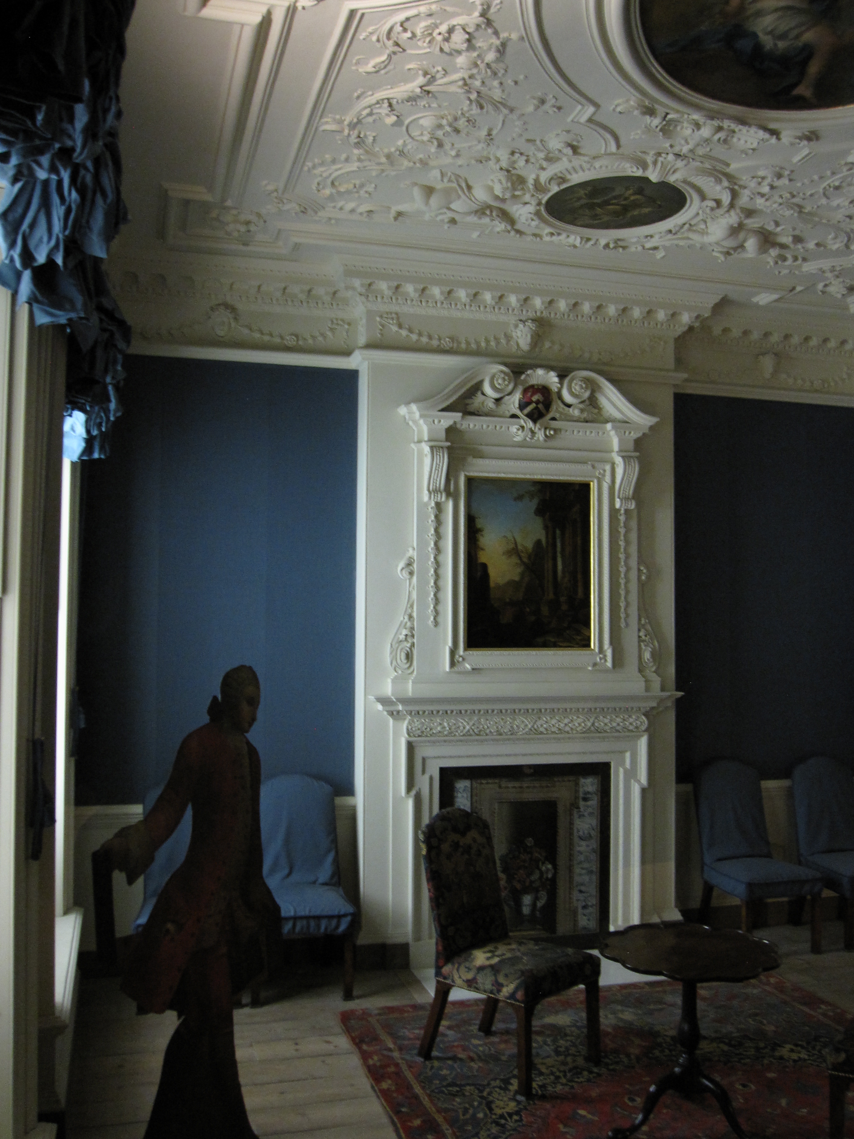 The parlour from 2 Henrietta Street, London (1727-1728). This room was the main entertaining room on the first floor of a London house designed by the architect James Gibbs (1682-1754). He bought the houses of fours plots in the new street using one for his own house and three, including number 2, for houses for renting. Although the exterior of the house was plain, the ceiling of this room was elaborately decorated. The main panels may be by the Italian-born painter Vincenzo Damini, the plaster decoration by the Swiss-born plasterworkers who frequently worked with Gibbs. Victoria and Albert Museum